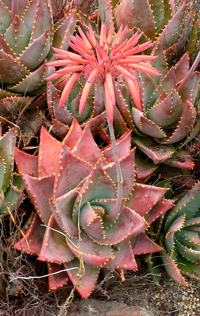 Photo of Aloe perfoliata (Syn. Aloe mitriformis) at the University of California Botanical Garden